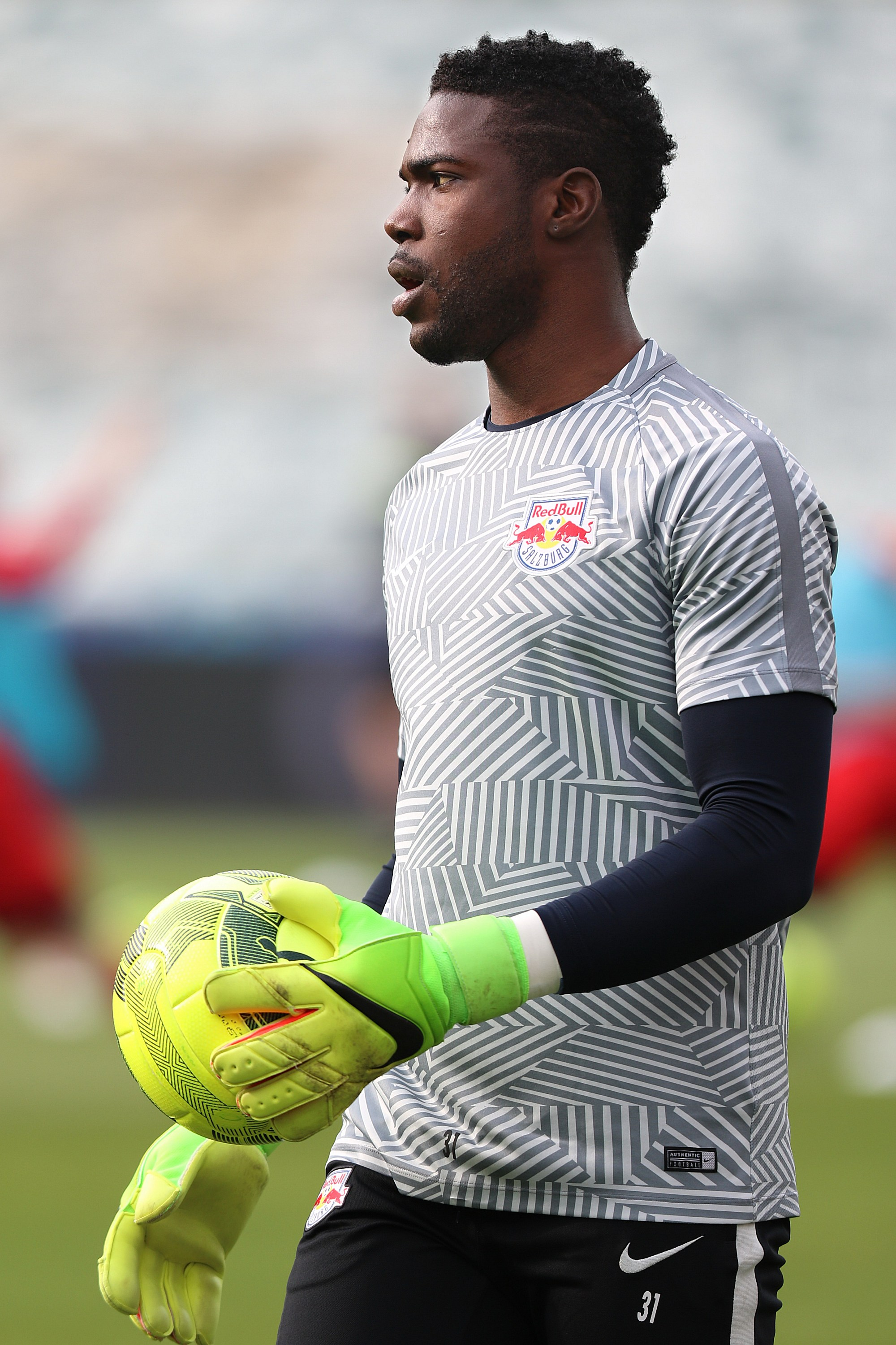 2016–17 Austrian Cup: FC Admira Wacker Mödling (red shirts) vs. FC Red Bull Salzburg (white shirts) at 26. April 2017 in the BSFZ-Arena in Maria Enzersdorf 0:5 (0:2) – The photo shows Lawrence Ati-Zigi (goalkeeper of FC Red Bulll Salzburg)